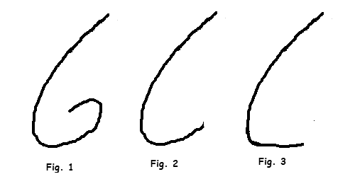 An explanation of the caricature of a Jewish nose, from the article "Nose" of the 1901-1905 Jewish Encyclopedia